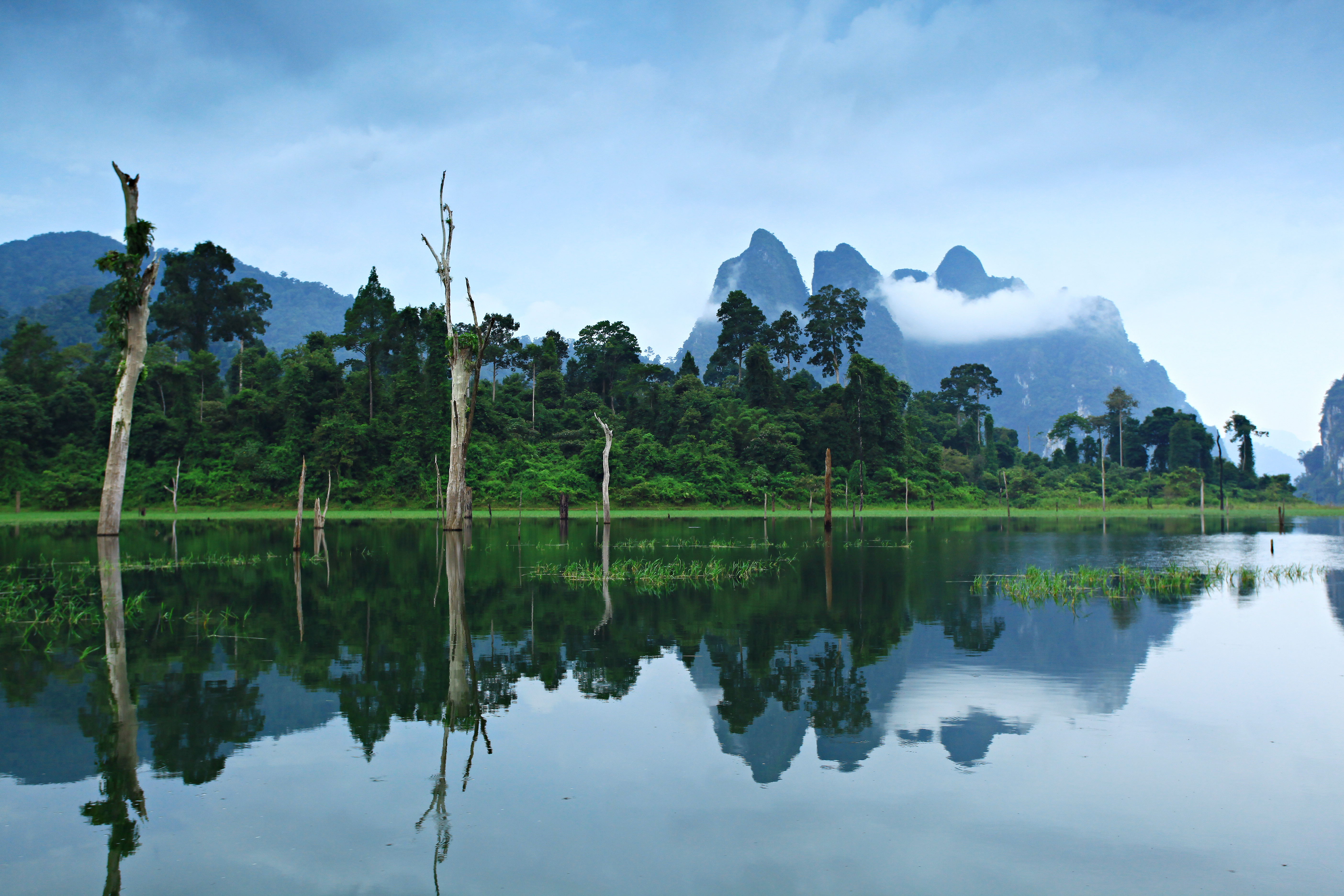 Khao Sok National Park is in Surat Thani Province, Thailand. Its area is 739 km², and it includes the 165 square kilometer Cheow Lan Lake contained by the Ratchaprapha Dam. The park is the largest area of virgin forest in southern Thailand and is a remnant of rain forest which is older and more diverse than the Amazon rain forest